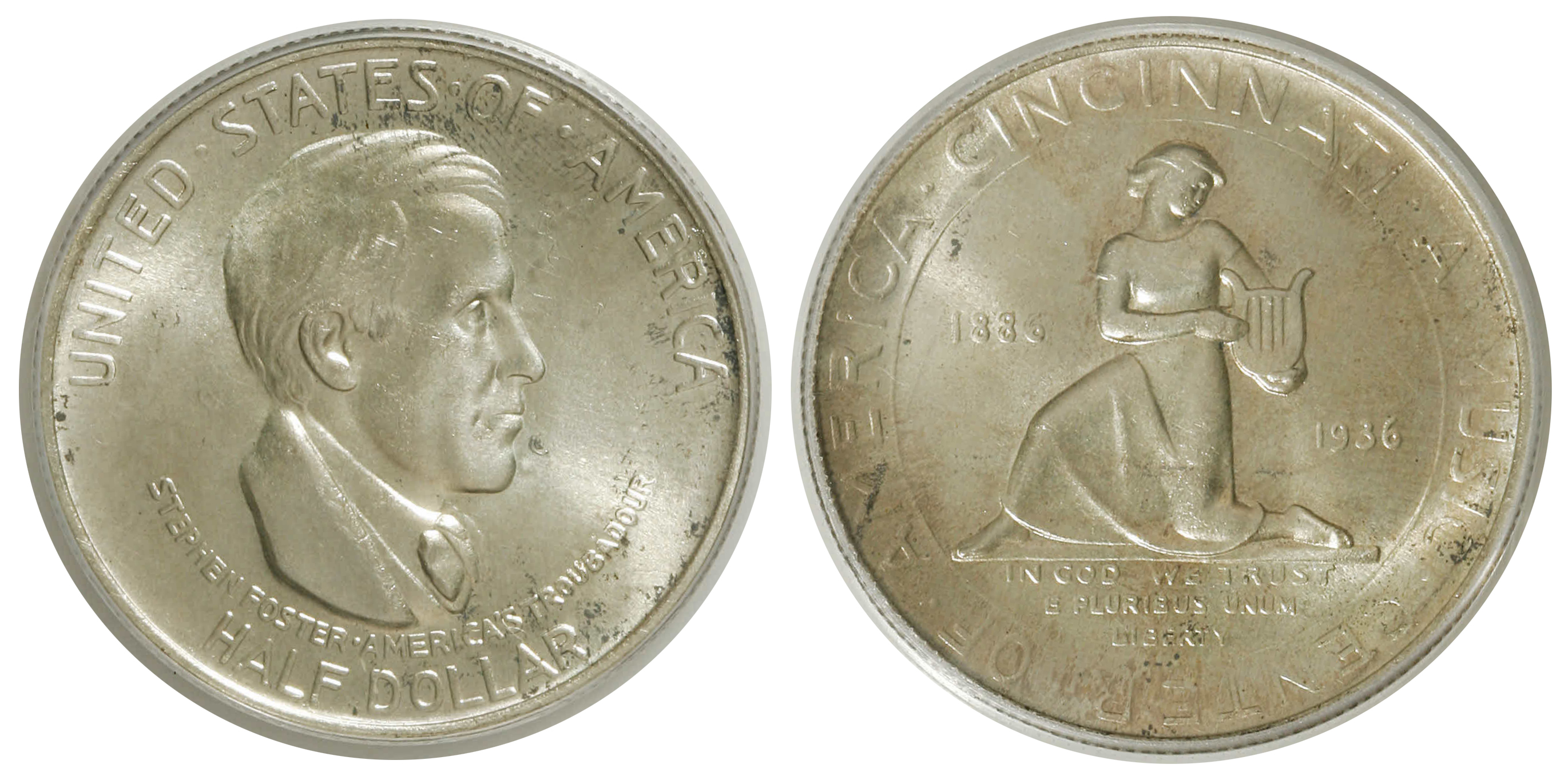 1936 50C Cincinnati (445-10230)